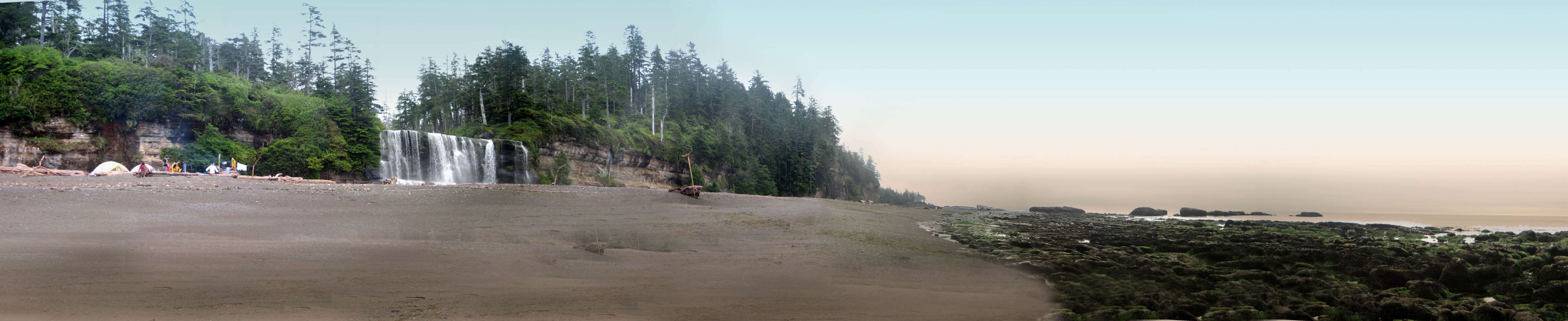 A panorama of the Tsusiat Falls campground on the West Coast Trail, tide out, on an overcast day in August 2007. Pics taken and stitched together by me (Burtonpe).